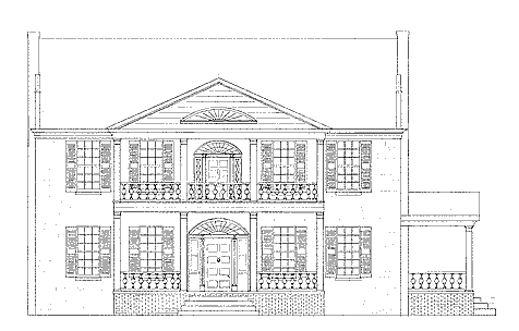 William H. Gist House, U.S. Route 176, Union vicinity (Union County, South Carolina) - cropped This file comes from the Historic American Buildings Survey (HABS), Historic American Engineering Record (HAER) or Historic American Landscapes Survey (HALS). These are programs of the National Park Service established for the purpose of documenting historic places. Records consist of measured drawings, archival photographs, and written reports. This tag does not indicate the copyright status of the attached work. A normal copyright tag is still required. See Commons:Licensing for more information. English | +/− This work is in the public domain in the United States because it is a work prepared by an officer or employee of the United States Government as part of that person’s official duties under the terms of Title 17, Chapter 1, Section 105 of the US Code. See Copyright. Note: This only applies to original works of the Federal Government and not to the work of any individual U.S. state, territory, commonwealth, county, municipality, or any other subdivision. This template also does not apply to postage stamp designs published by the United States Postal Service since 1978. (See 206.02(b) of Compendium II: Copyright Office Practices). It also does not apply to certain US coins; see The US Mint Terms of Use. This file has been identified as being free of known restrictions under copyright law, including all related and neighboring rights.